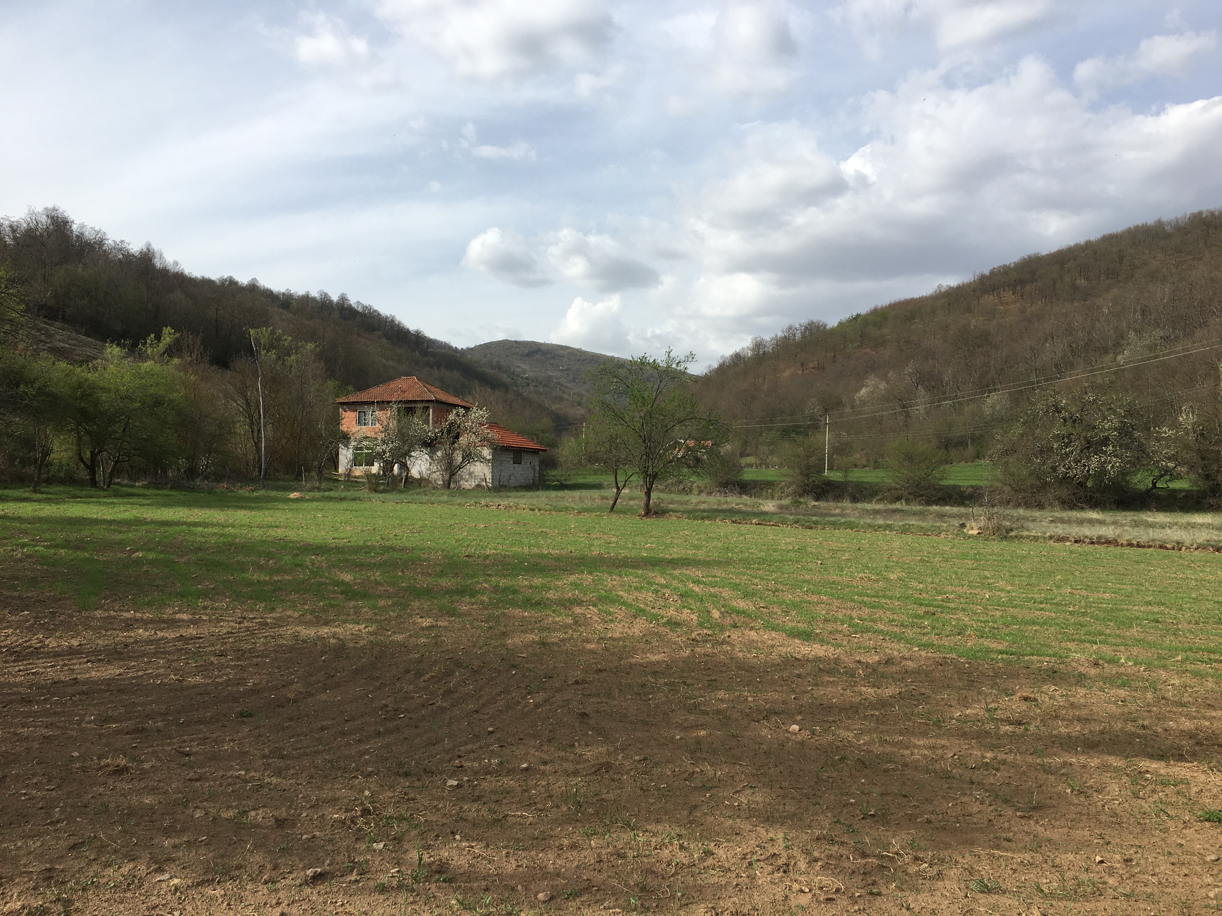 Houses in the village of Krstov Dol